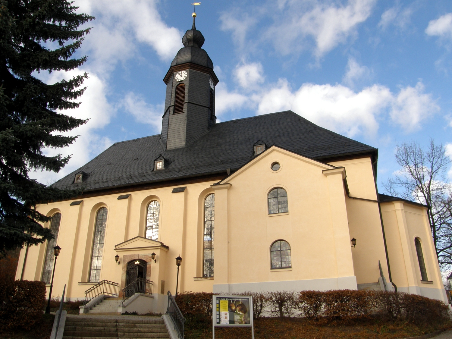 Evangelic church in Oelsnitz/Erzgebirge.